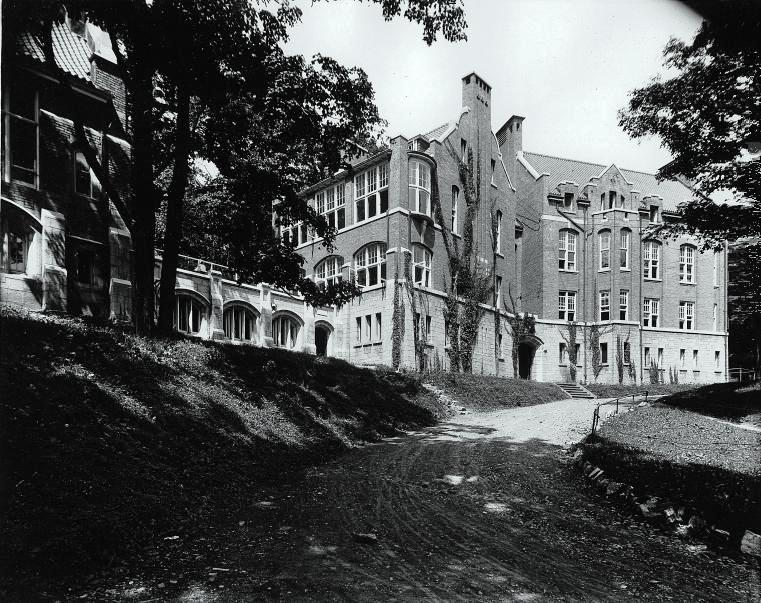 Photograph, Children's Memorial Hospital, Cedar Avenue, Montreal, QC, 1913, Wm. Notman & Son, Silver salts on glass - Gelatin dry plate process - 20 x 25 cm